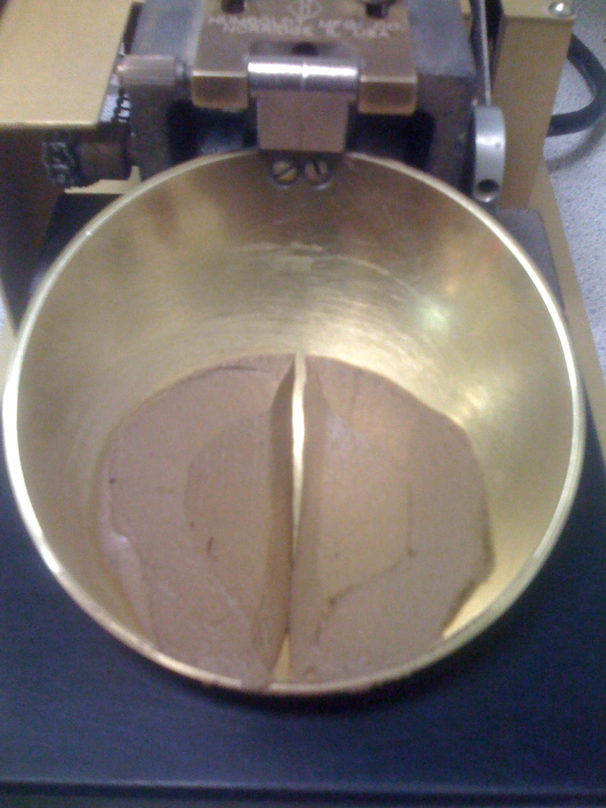 Tool used in the atterberg tests.